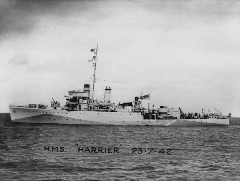 Photograph of British Halcyon class minesweeper HMS Harrier.